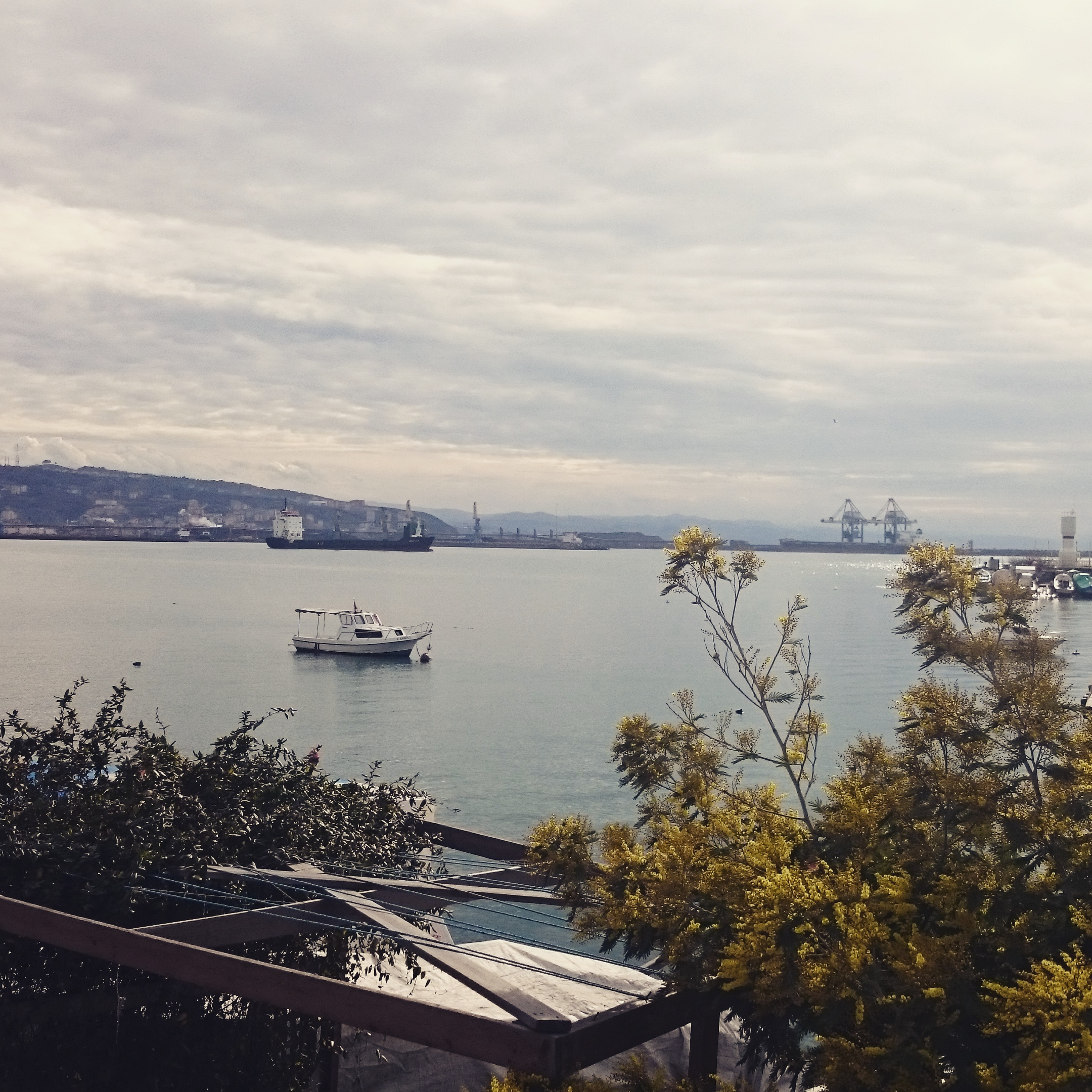 A photo from the Ereğli district, 8 February 2015.